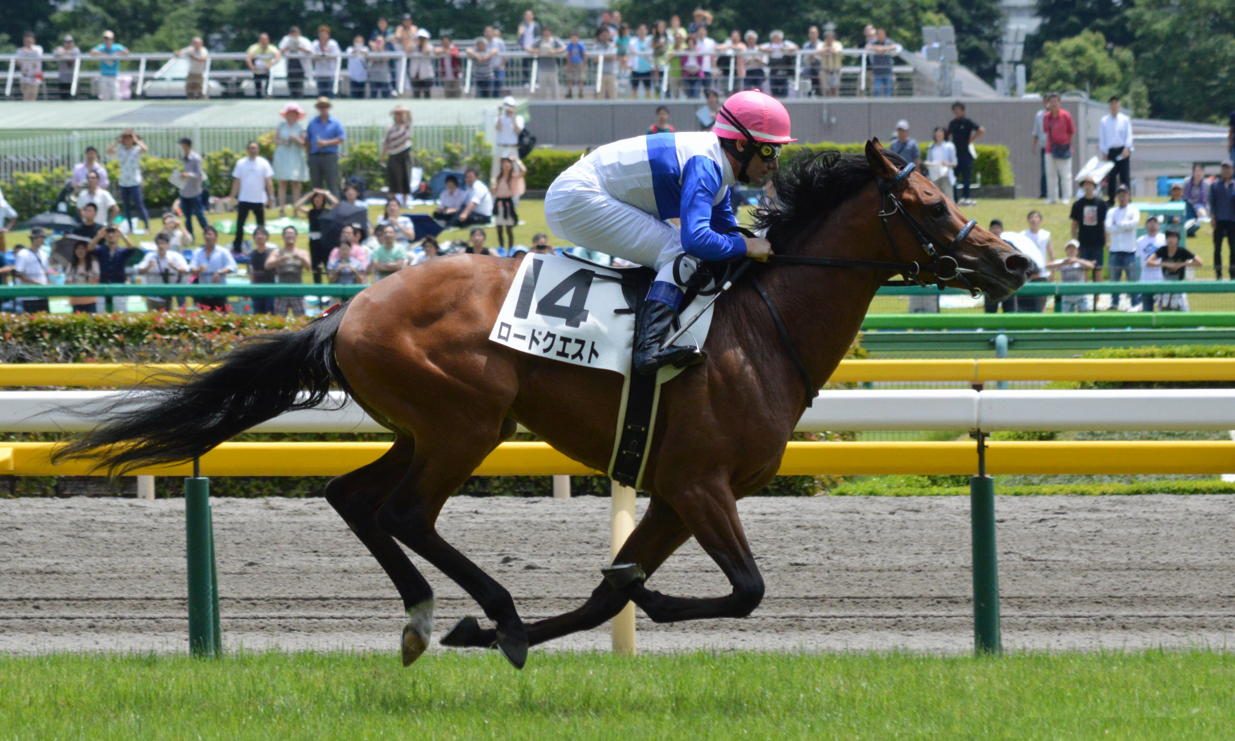 Japanese race horse Lord Quest at Tokyo racecourse. Tokyo (JPN) 7 Jun 2015 Maiden (Turf) 1m Firm RankHorse NameOddsAgeWgtTrainerJockey1stLord Quest (JPN)202/10C28-7Shigeyuki KojimaMirco Demuro2ndBrave Smash (JPN)157/10C28-7Michihiro OgasaRyuichi Sugawara3rd - 14th/omission